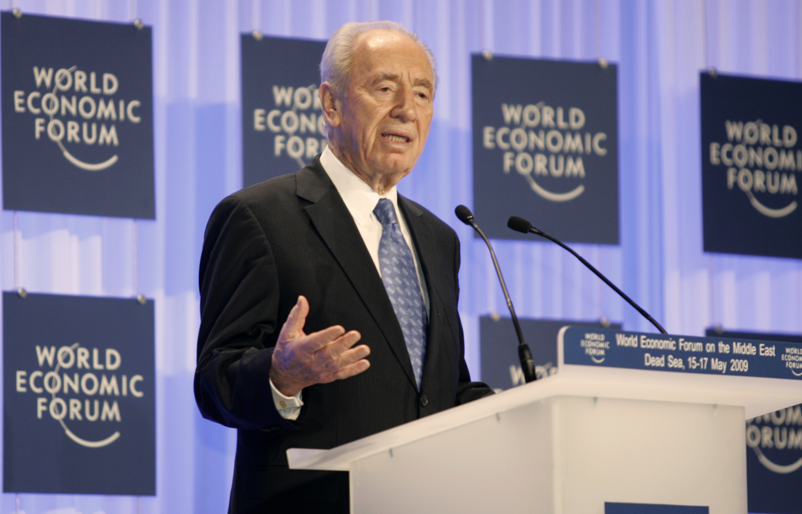 DEAD SEA/JORDAN,17MAY09 -Shimon Peres, Presedint of Israel captured during the World Economic Forum on the Middle East at the Dead Sea in Jordan, May 17, 2009.